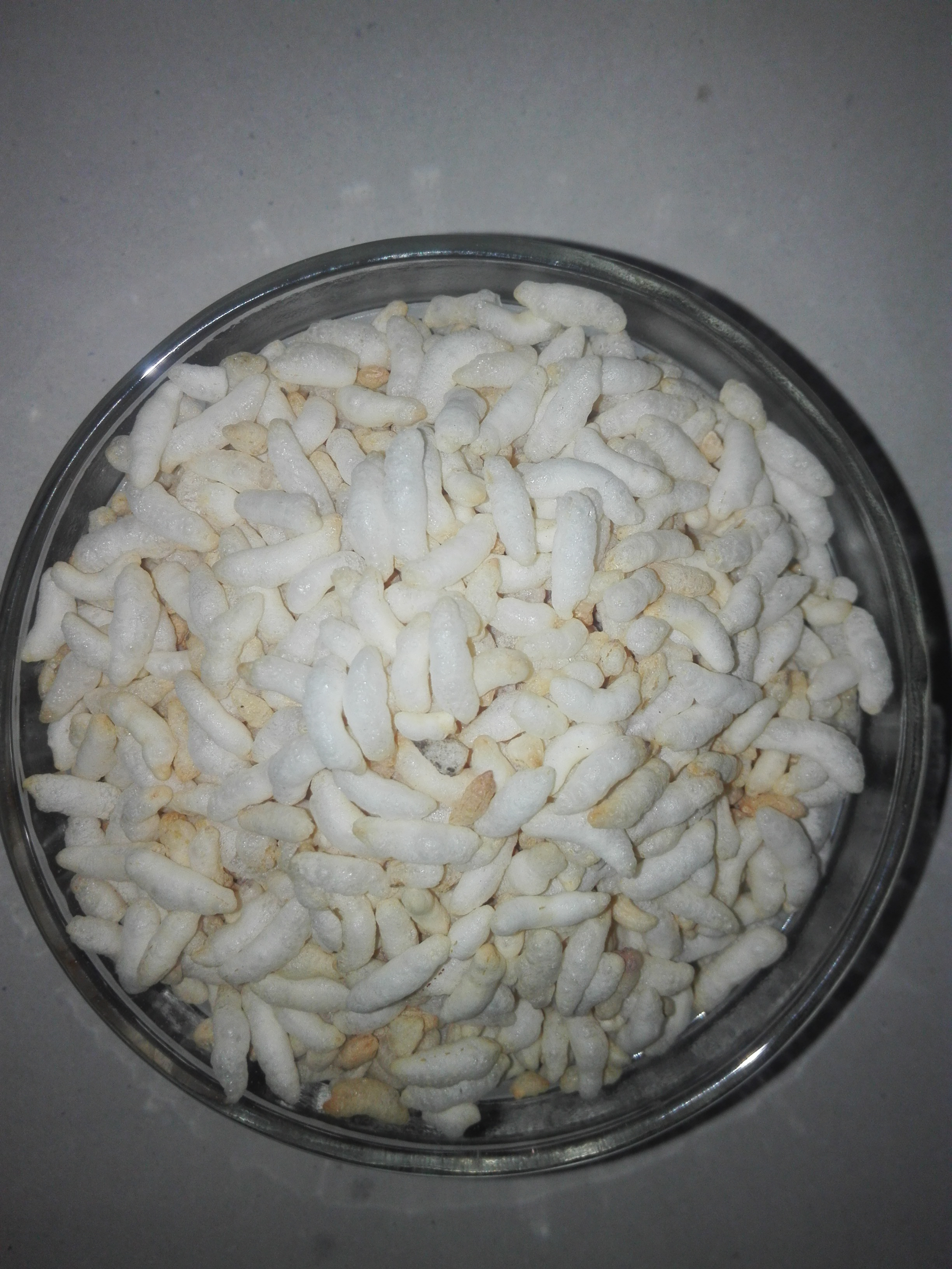 puffed rice